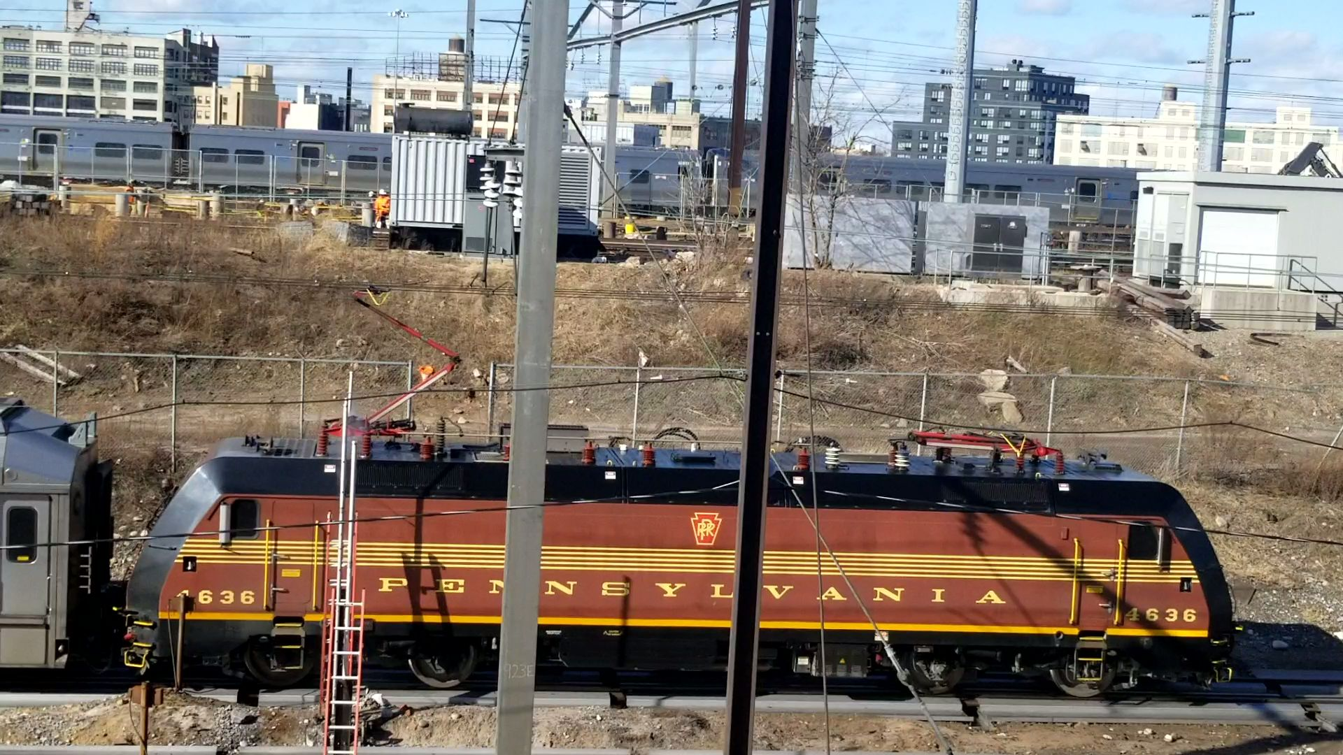 NJT No. 4636, dressed in PRR's color, got washed at Sunnyside Yard Loop